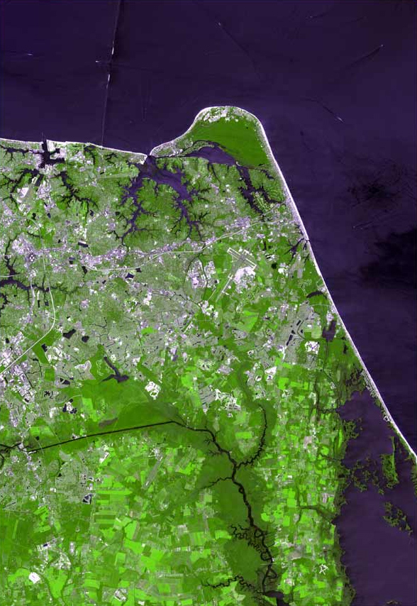 The raw satellite imagery shown in these images was obtain from NASA and/or the US Geological Survey. Post-processing and production by